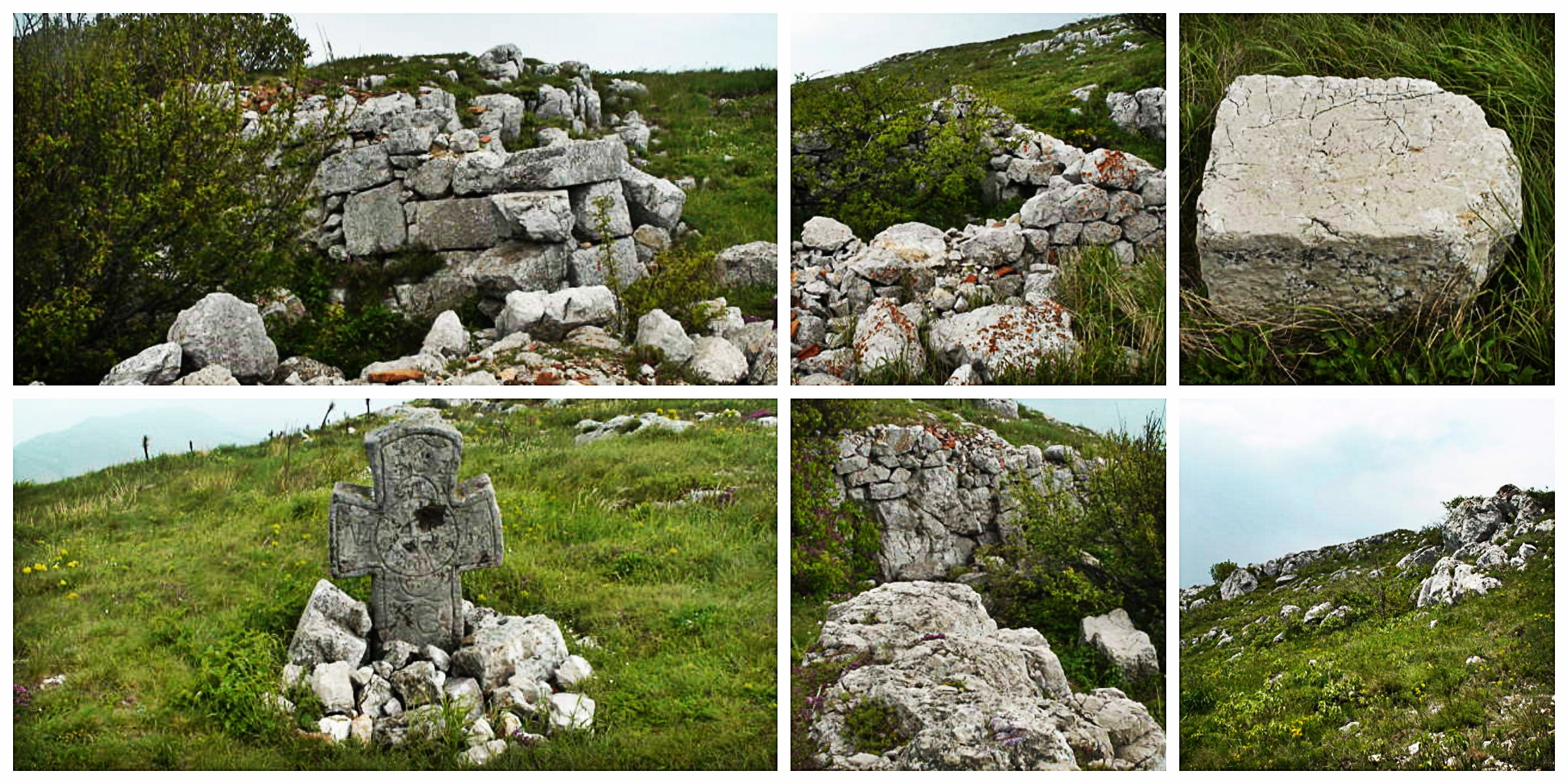 Cross_Petrovski_krust_Dragoman_BG